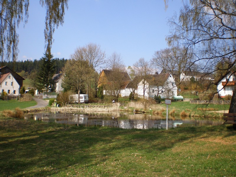 Längenau (Selb), District Wunsiedel i.F., Bavaria, Germany